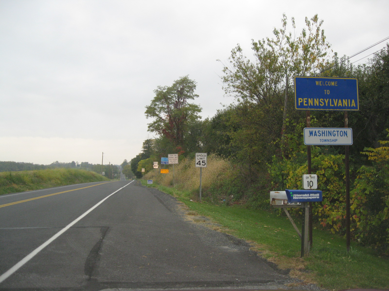 Pennsylvania State Route 997, entering Washington Township, Franklin County, Pennsylvania.